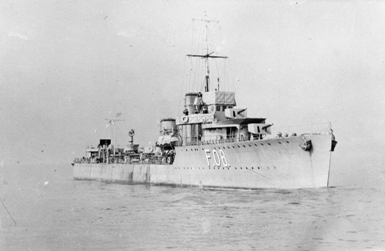 Photograph of British V class destroyer HMS Vectis.